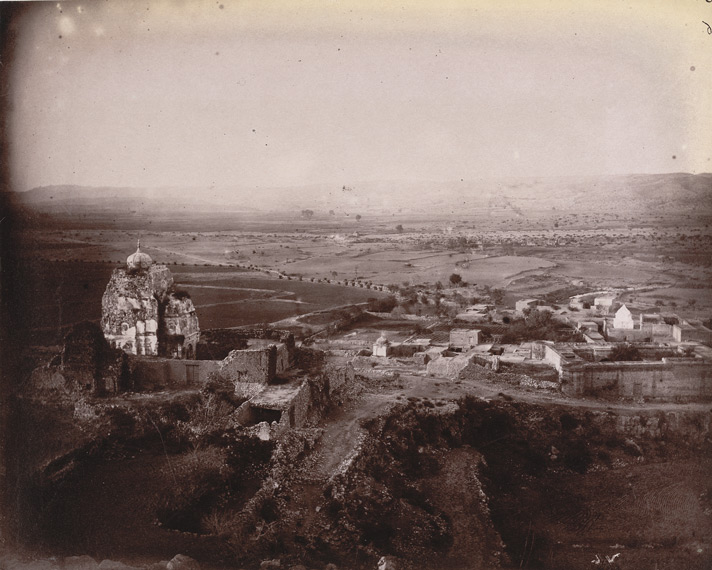 General view of Katas village, with old temples including the Katas Raj in foreground, 1875.